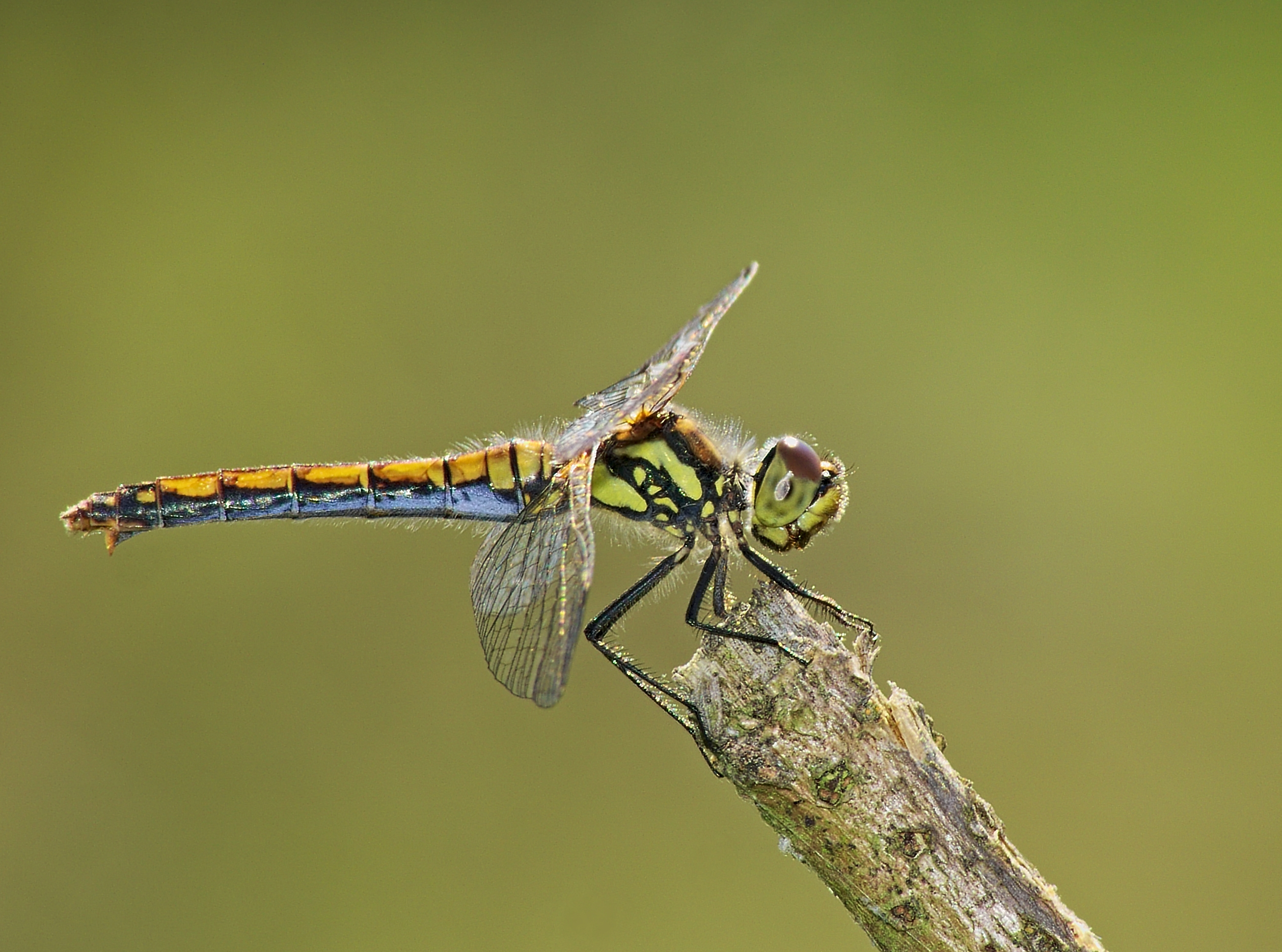 Black darter - Sympetrum danae, female. Taken by the Zadlitzgraben in Pressel, Laußig, Saxony, Germany.